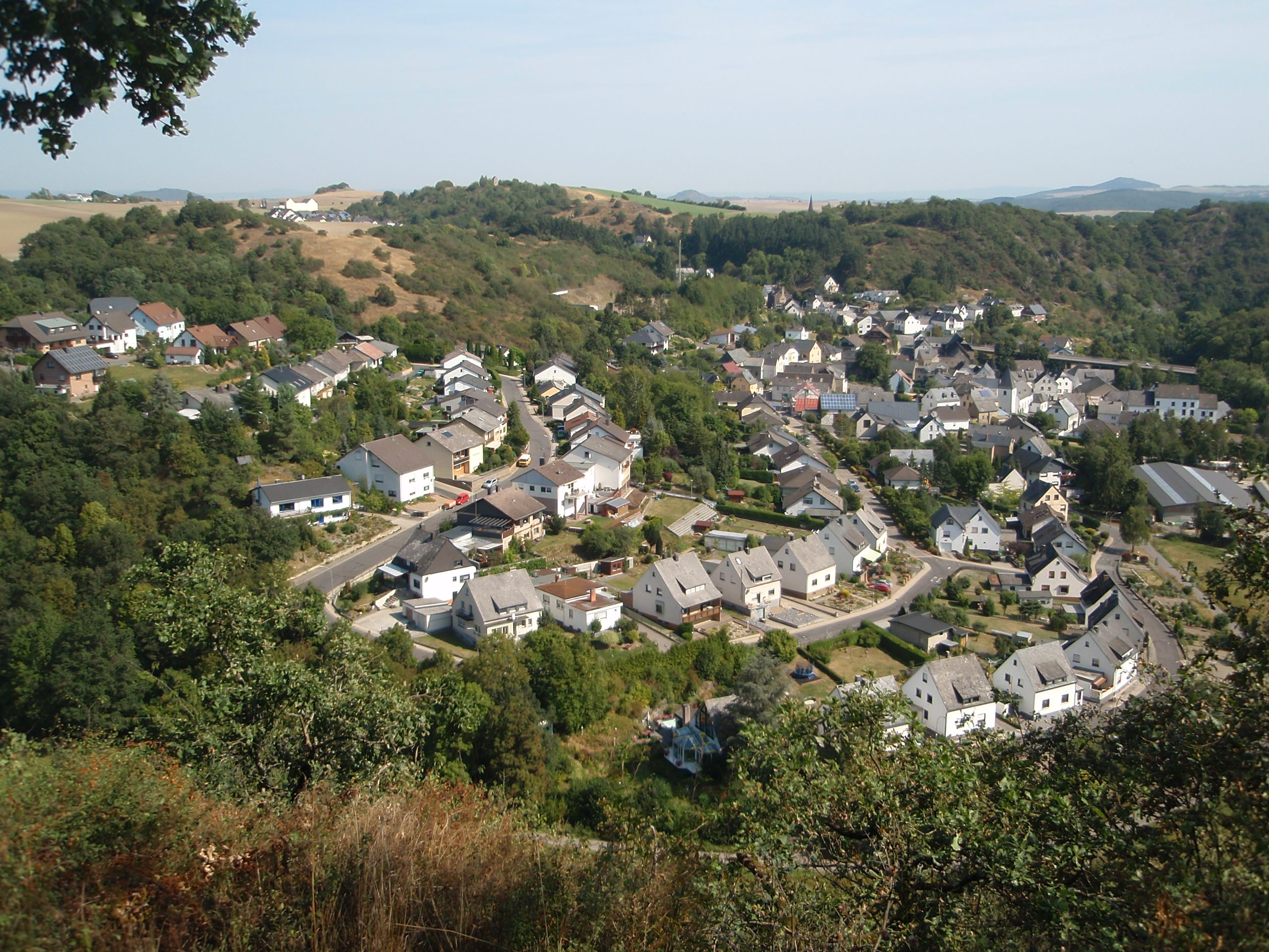 Trimbs, view from southwest